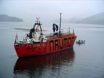 Naumon Ship, La fura dels baus floating performing arts center